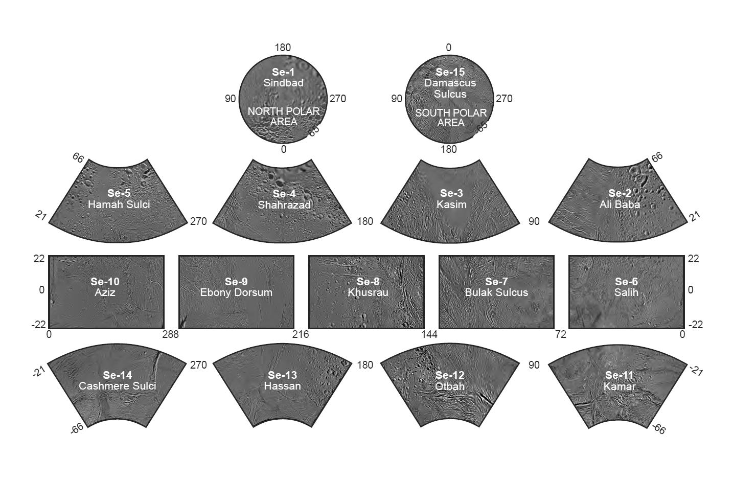 Presented here is a complete set of cartographic map sheets from a high-resolution Enceladus atlas, a project of the Cassini Imaging Team. The map sheets form a 15-quadrangle series covering the entire surface of Enceladus at a nominal scale of 1:500,000. An index for the atlas is included here, along with an unlabeled version of each terrain section. The map data was acquired by the Cassini imaging experiment. The mean radius of Enceladus used for projection of the maps is 252.1 kilometers (156.6 miles). Names for features have been approved by the International Astronomical Union (IAU). This atlas is an update to the version released in December 2008 (see PIA08419). Like other recent Enceladus maps, the final controlled mosaic was shifted by 3.5 degrees to the west, compared to 2006 versions, to be consistent with the International Astronomical Union longitude definition for Enceladus. The Cassini Equinox Mission is a joint United States and European endeavor. The Jet Propulsion Laboratory, a division of the California Institute of Technology in Pasadena, manages the mission for NASA's Science Mission Directorate, Washington, D.C. The Cassini orbiter was designed, developed and assembled at JPL. The imaging team consists of scientists from the US, England, France, and Germany. The imaging operations center and team lead (Dr. C. Porco) are based at the Space Science Institute in Boulder, Colo. For more information about the Cassini Equinox Mission visit and Credit: NASA/JPL/Space Science Institute Released: May 13, 2010 (PIA 12783)